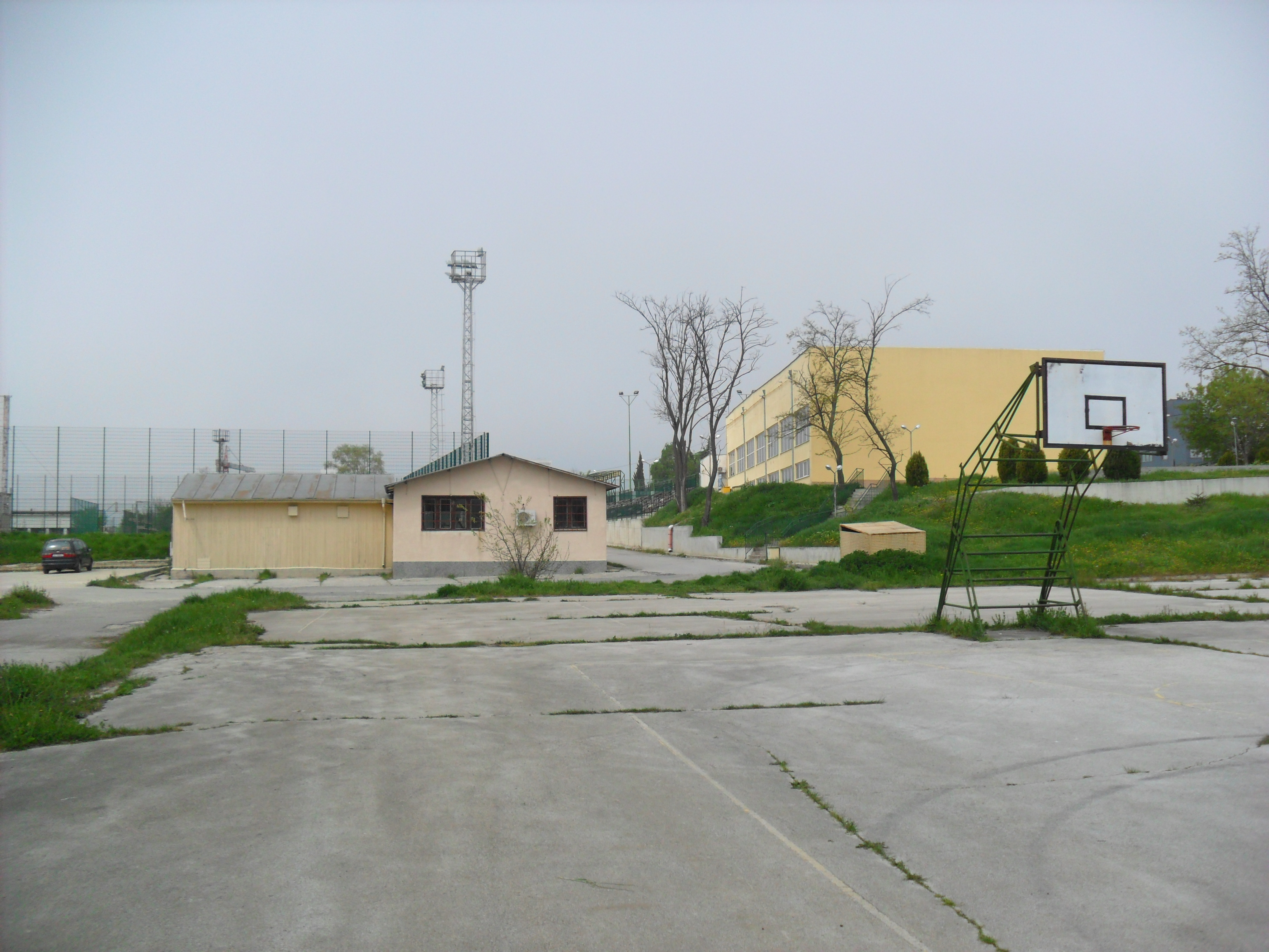 1 st of May 2015